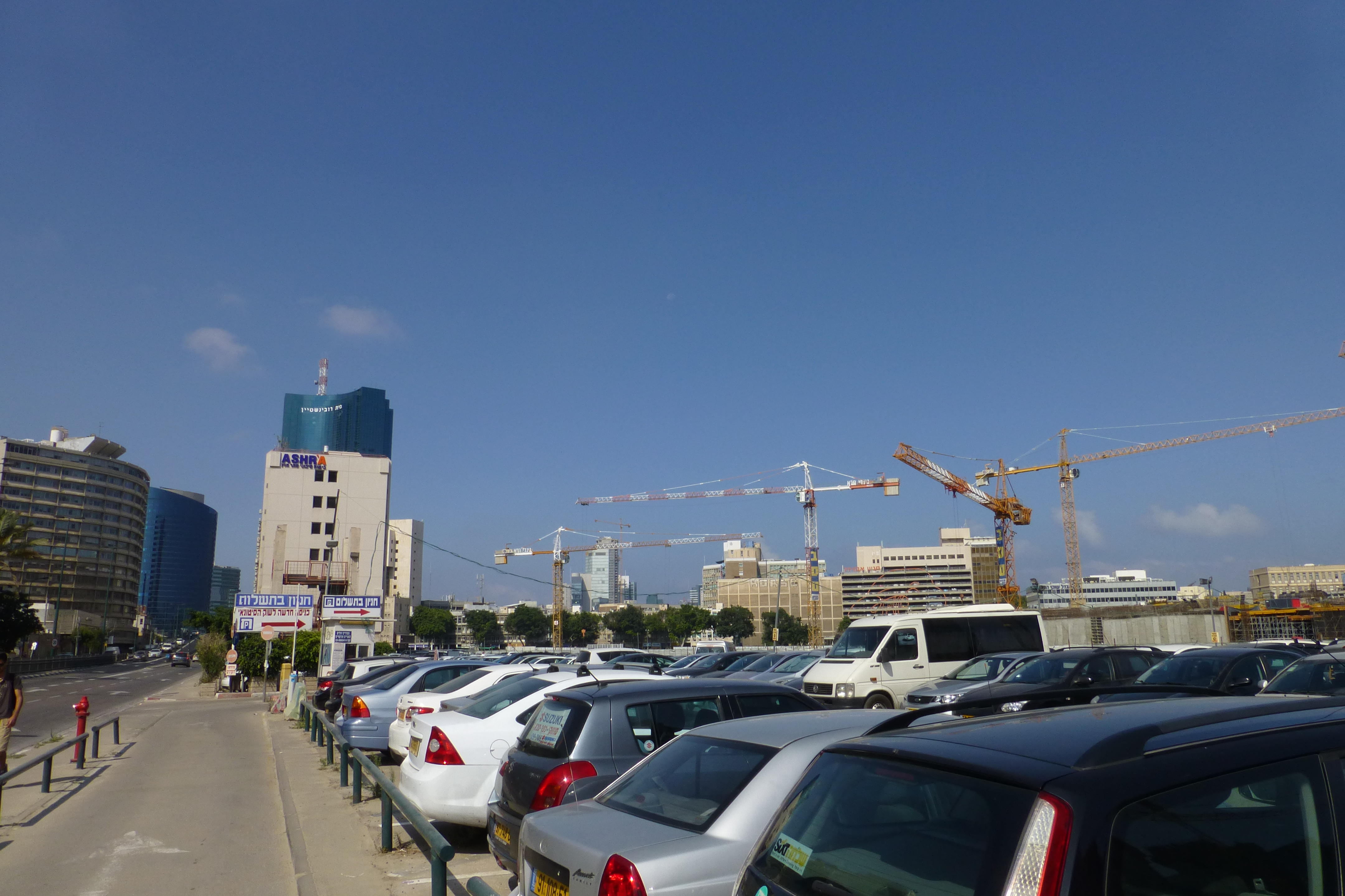 Begin Road, Tel Aviv-Yafo